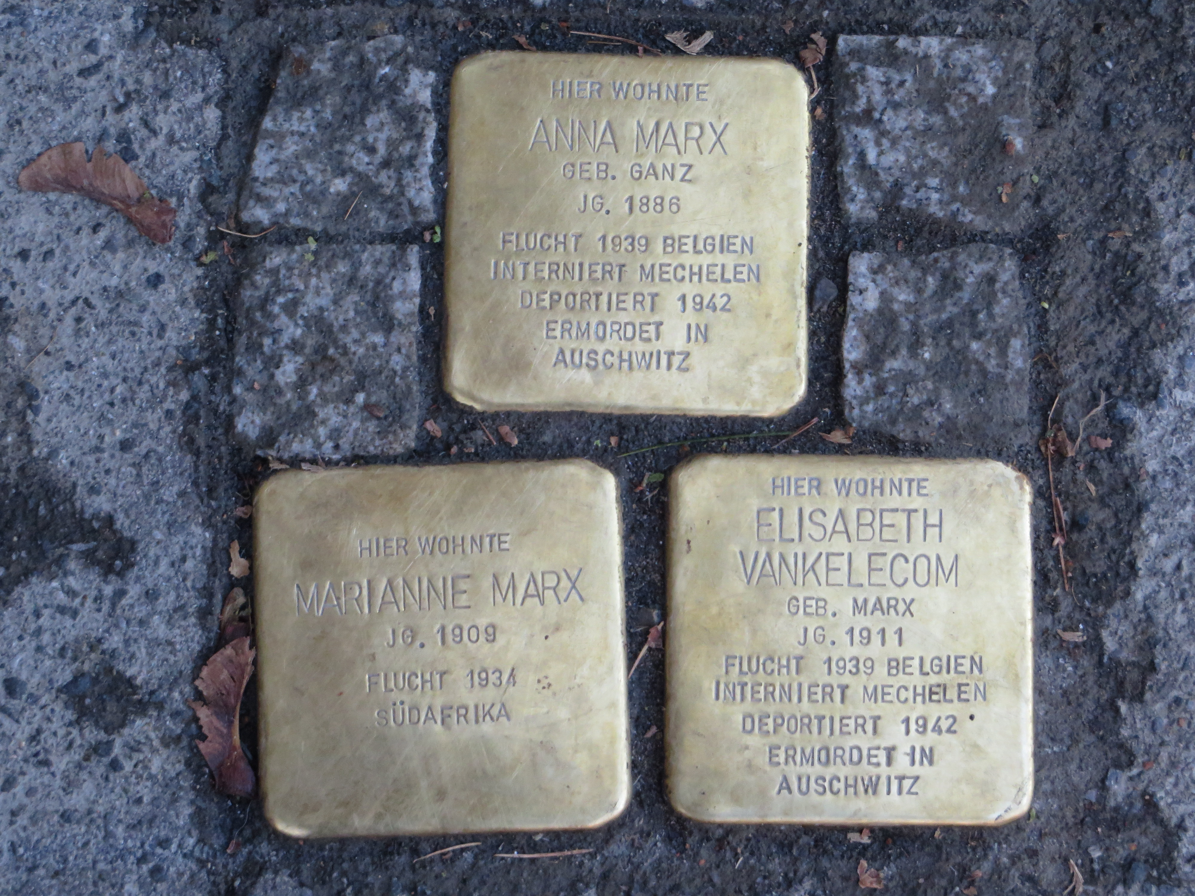 Stolpersteine at house Nordstraße 23 in Witten, GermanyEsperanto: Stumbligaj ŝtonetoj ĉe domo Nordstraße 23 en Witten, Germanio